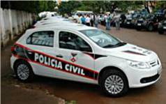 Police car – Rondonia State - Brazil